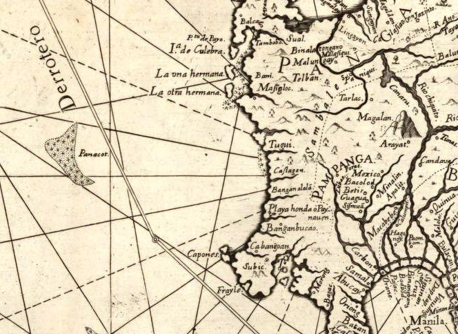 Panacot, detail from Carta Hydrographica y Chorographica de las Yslas Filipinas. Now called Scarborough Shoal, Panacot appears off the coast of Central Luzon in this 1734 map.